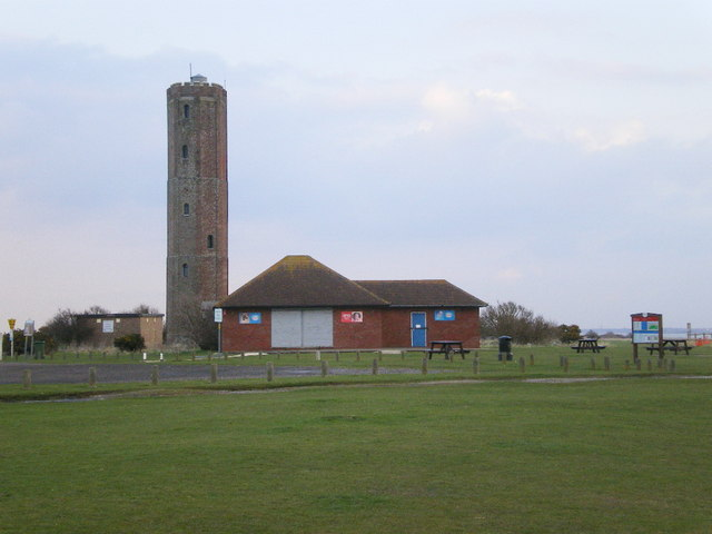 Naze Tower A Grade II* listed building, Trinity House built the 86ft octagonal Naze Tower in 1720 as a navigational mark to aid shipping.